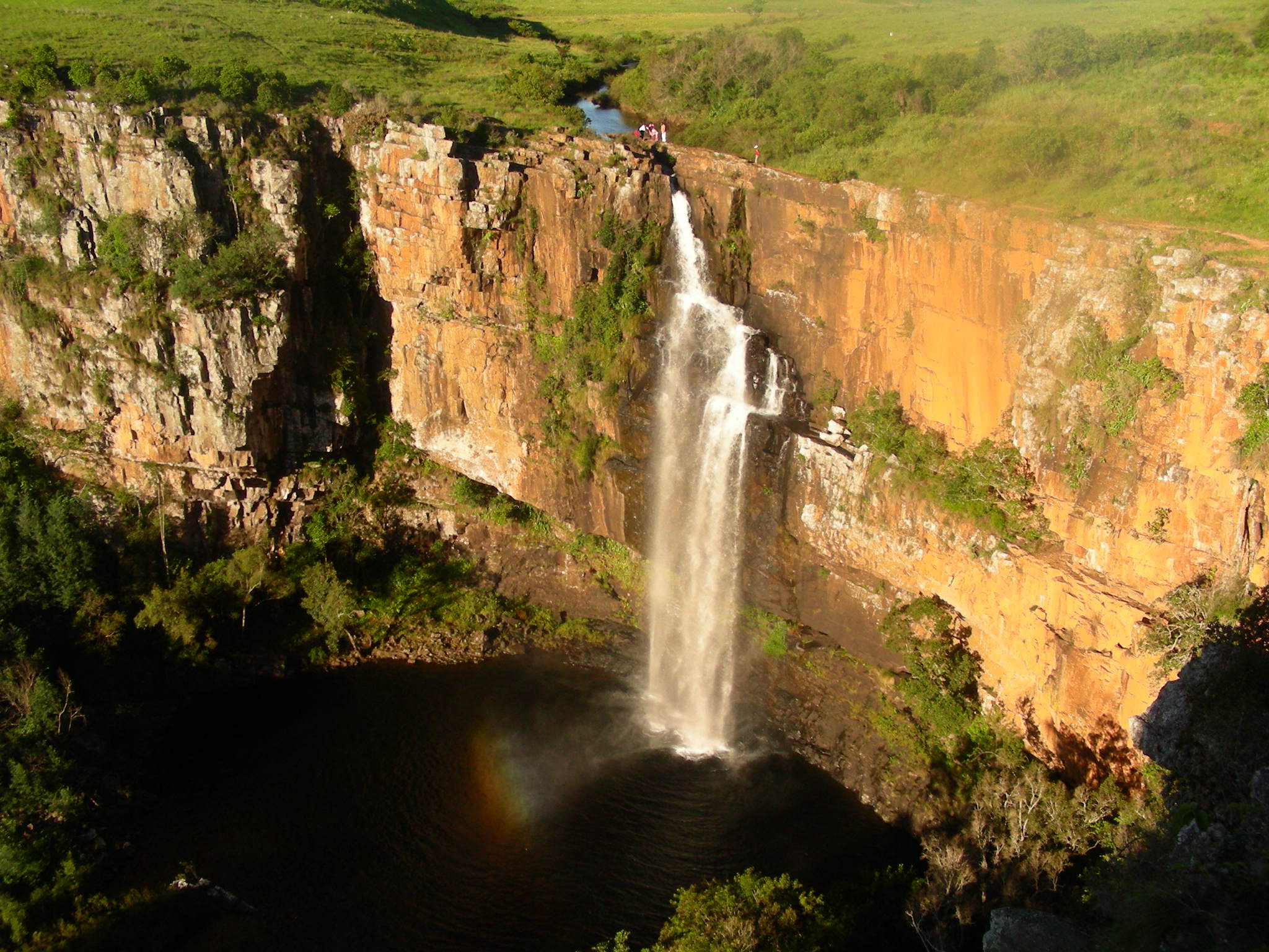 The highlight of the Escarpment/Panorama Route Berlin Falls, Mpumalanga, South Africa